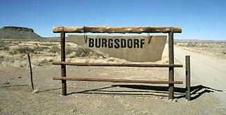 Sign of the Burgsdorf-Farm near Maltahöhe, Namibia.